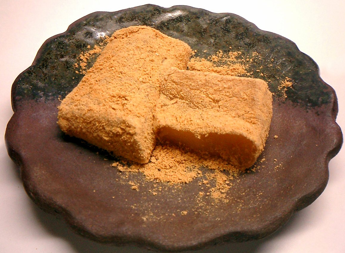 Walnut_mochi - Japanase traditional sweet. Mochi stuffed with walnut paste and rolled in and dusted with kinako.